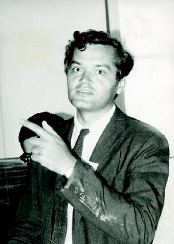 James Glimm, Nice 1970